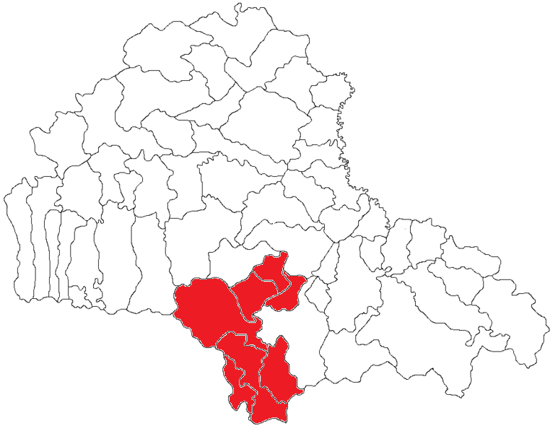 Bucegi-Piatra Craiului region of Brasov County, Romania